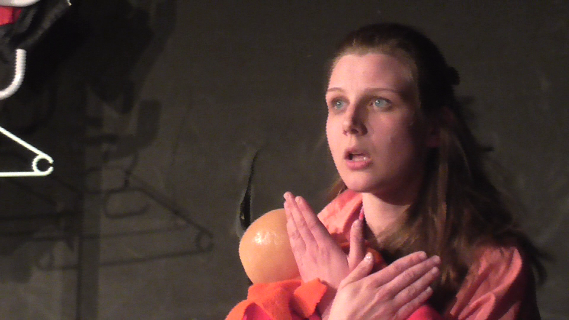 Anita Bognár plays Dario Fo - Franca Rame Il risveglio (2) in the Sanyi & Aranka theatre, Hungary